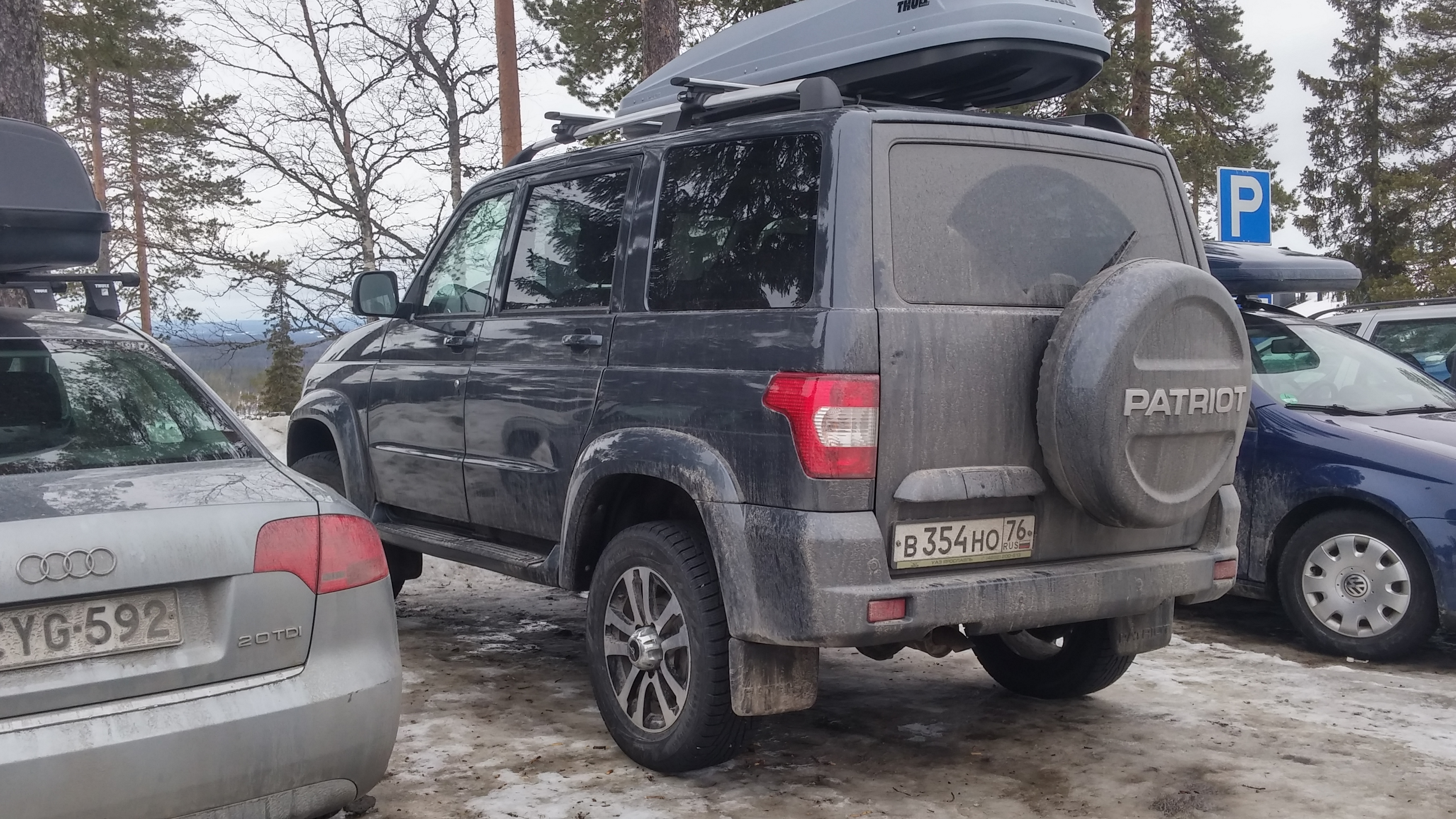 UAZ Patriot